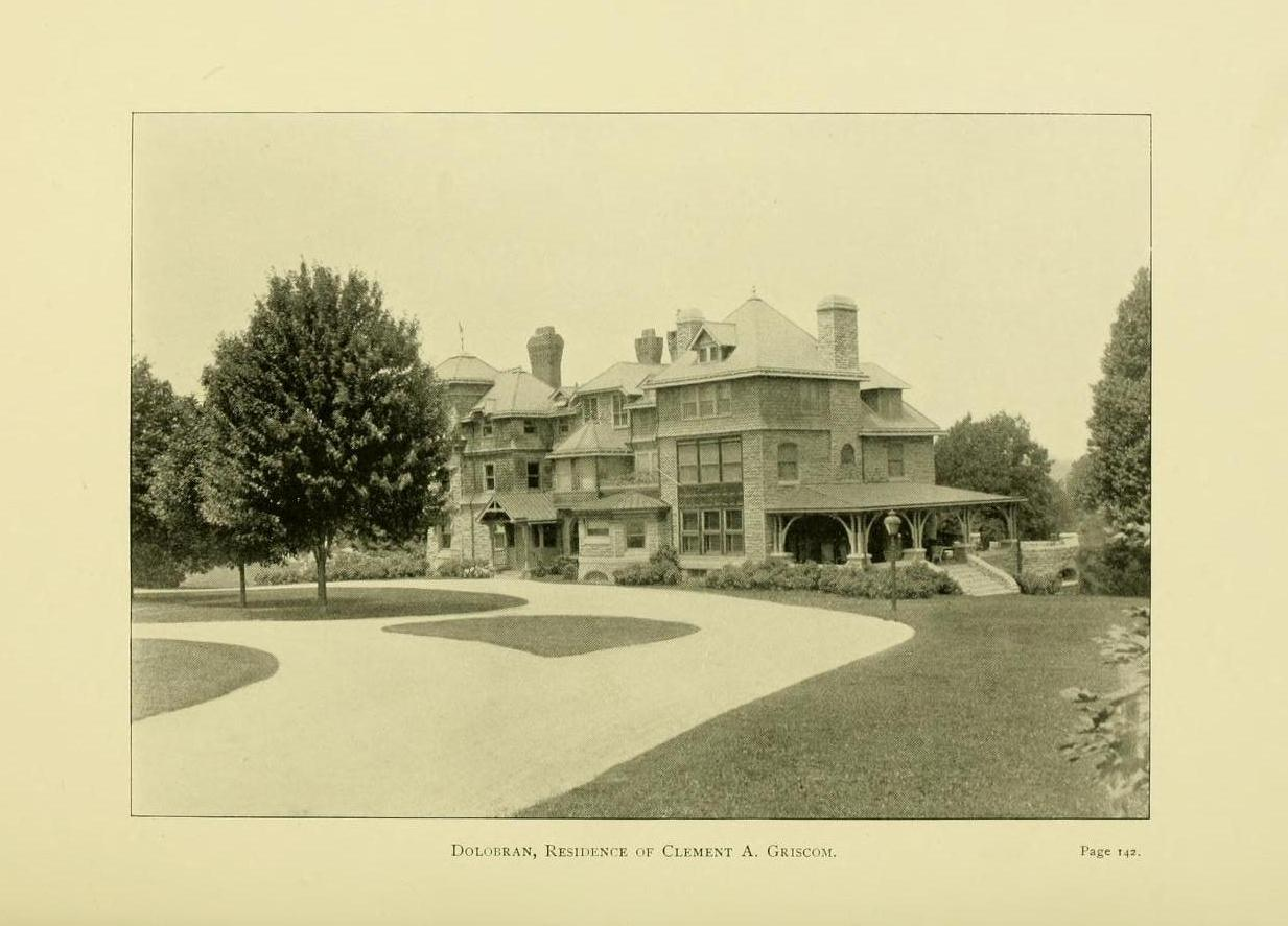 "Dolobran, Residence of Clement A. Griscom."